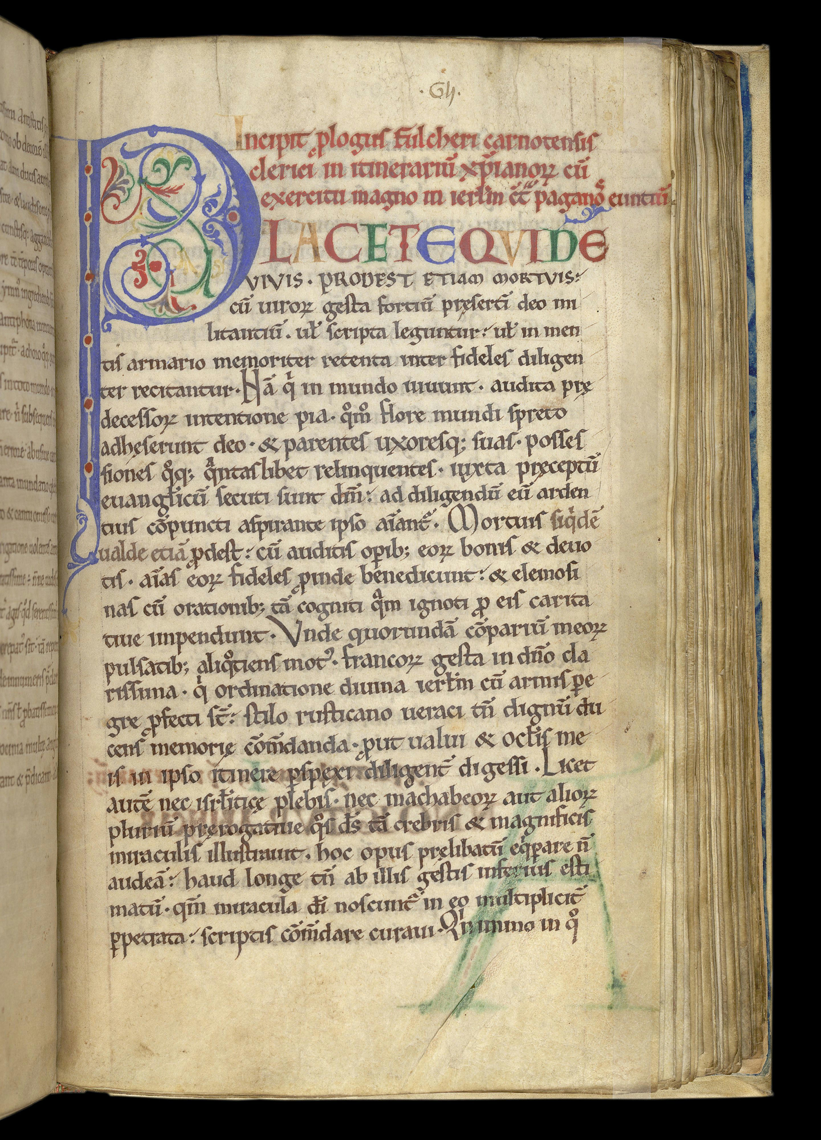 Medieval theologians and preachers drew on a large number of books in their studies and writings. Often a volume from a cathedral or monastic library would contain works by several authors, bringing together writings that were related in some way. Containing instructive and inspirational writings on worship and faith, this manuscript belonged to the monastery of St Augustine, Canterbury. Each piece was copied by a different scribe on a separate section of pages, and two of them may have been made in the 11th century while the rest were made in the 12th. Foucher of Chartres wrote his 'History of the Expedition to Jerusalem', an account of the first crusade, about 1125-1127. It fits in with the other works in the manuscript such as the saints' lives because it gives an account of Christians going up against 'pagans', according to the title written in different colours at the top of the page. The decoration of the first letter of the 'History' is like decoration seen in other 12th-century manuscripts from Canterbury and some other southern English monasteries: spiralling brush strokes of colour which form a vine-like pattern.